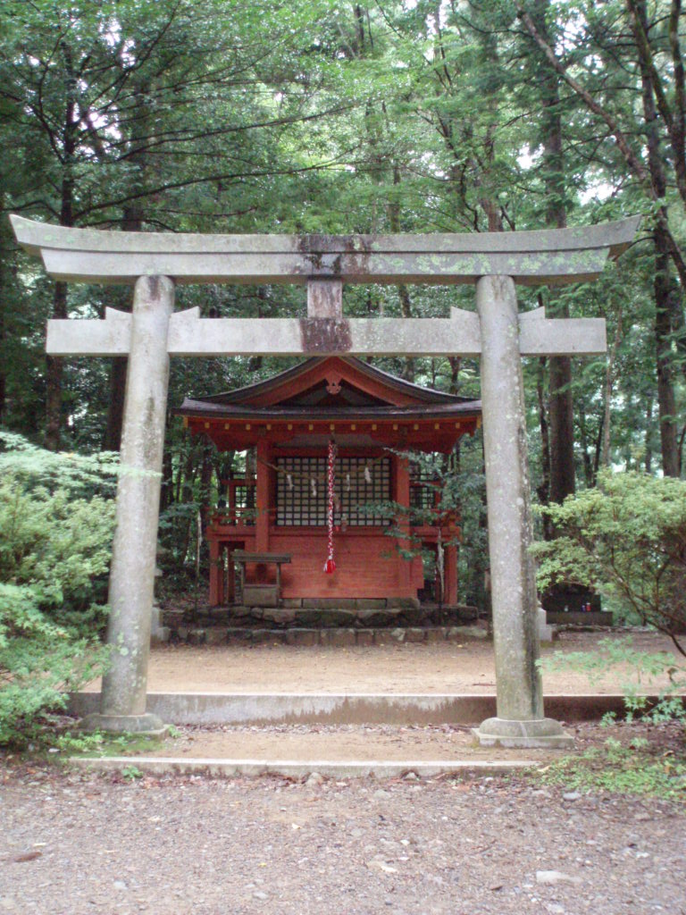 sacred arch, HOSSHINMON-oji